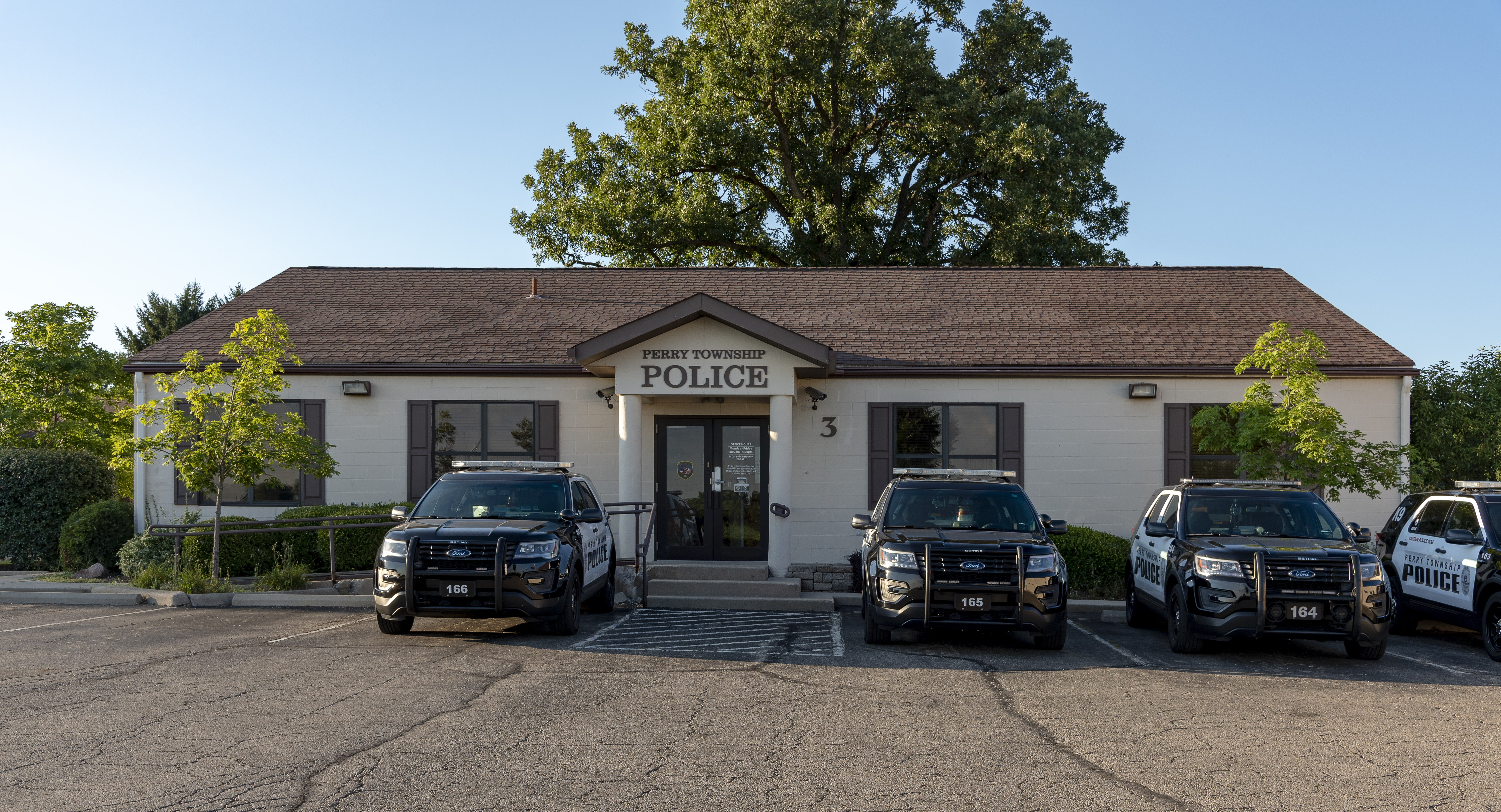 Headquarters of the Perry Township Police Department. Viewed looking north.